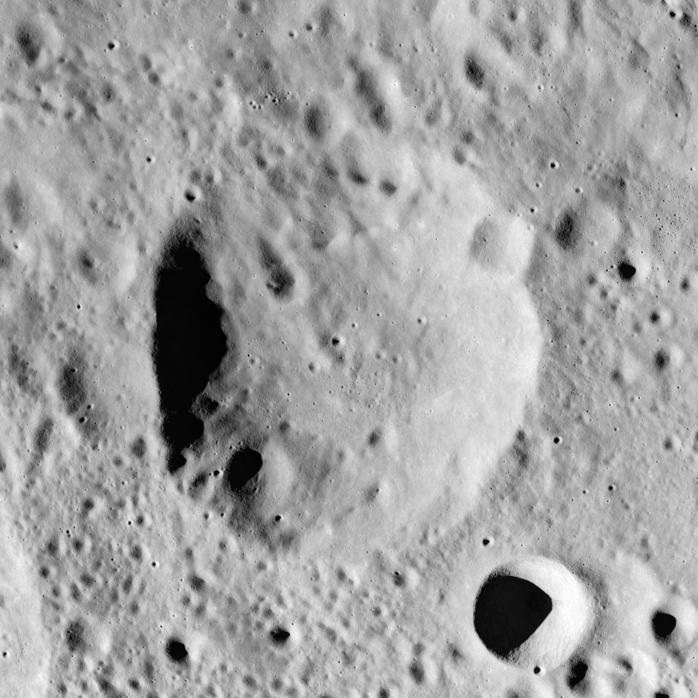 Grave crater, within Gagarin crater, on the far side of the moon.